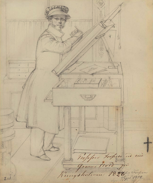 Christian Forssell (1777-1852)